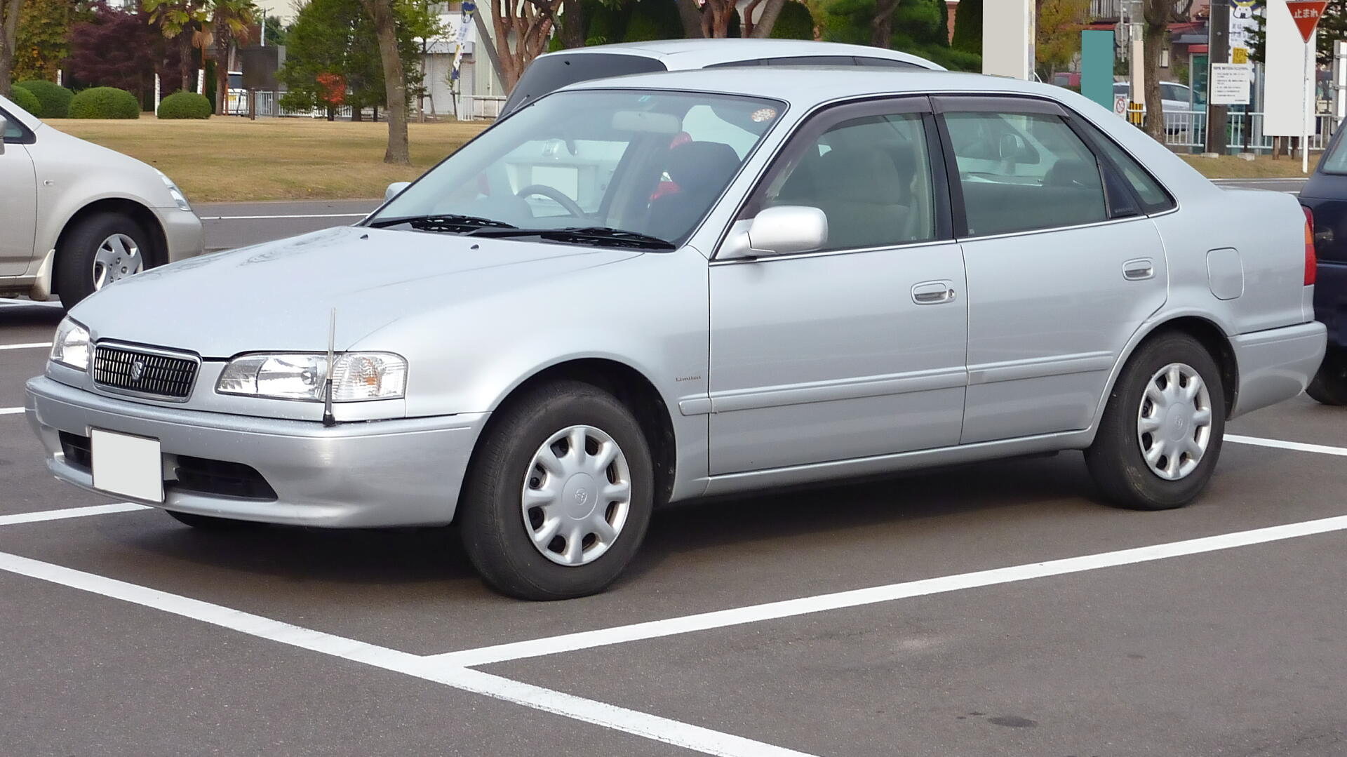 110-series Toyota Sprinter XE Vintage Limited.